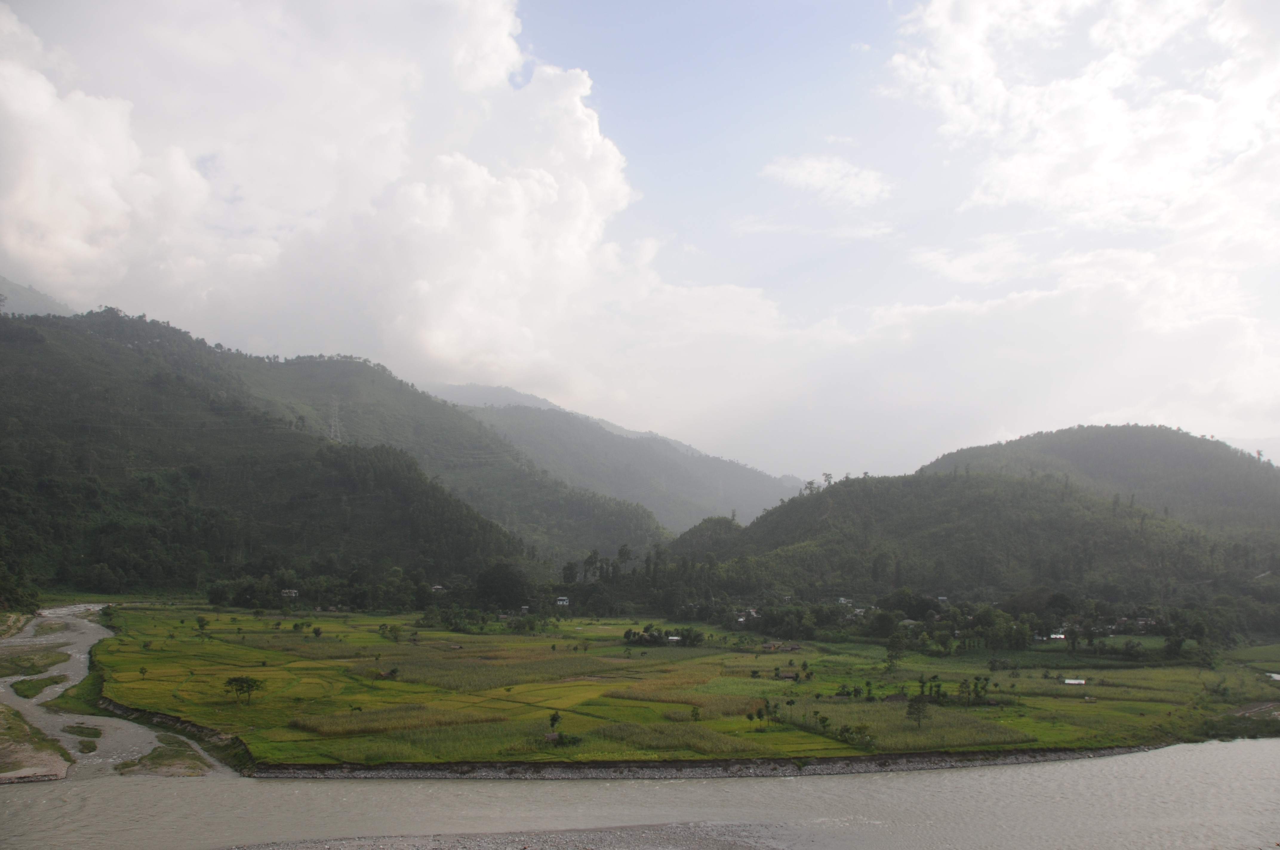 Jorethang, South Sikkim District Sikkim India